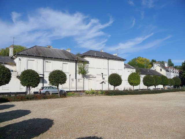 Skindles Hotel The whole of this white building is the former Skindles Hotel,where the famous and infamous met for many years (Edward VII when Prince of Wales, Winston Churchill, Princess Margaret in her racy heyday, the Rolling Stones to name but a few)until it closed around the late 70s/early 80s and as a listed building has remained boarded since due to lack of interest. However serious plans are now being proposed-this could be one of the last pictures!!